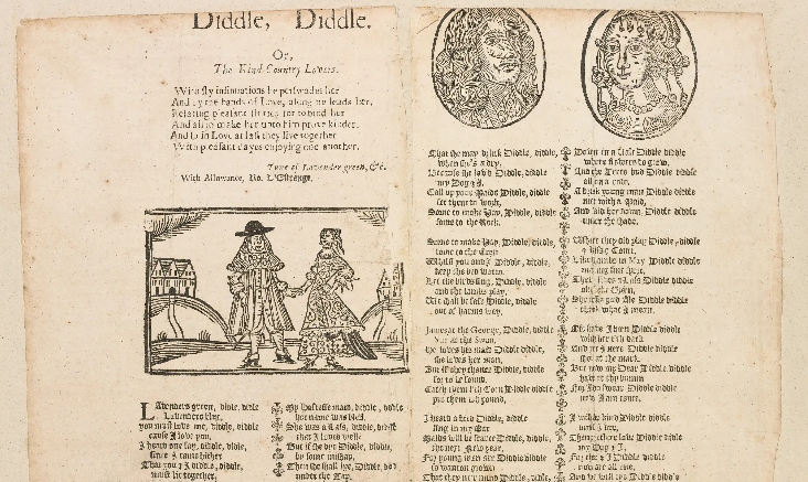 Diddle, diddle. Or, The kind country lovers. A 17th-century broadside from London.